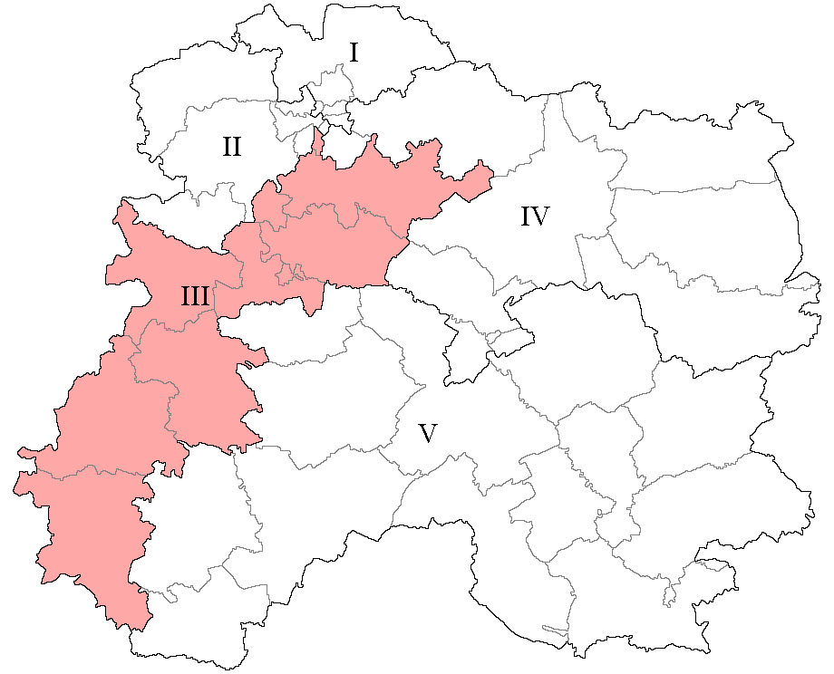 Locator map of the Marne's 3rd constituency since 2012.